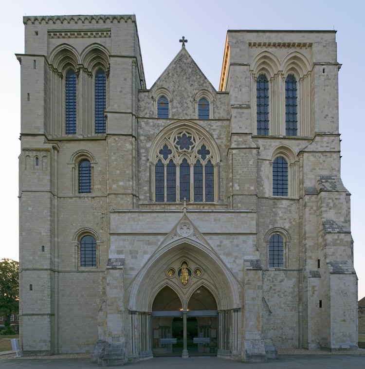 Author: Antony McCallum West Aspect of Chichester Cathedral